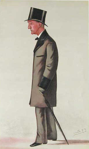 William Edward Baxter by Leslie Ward